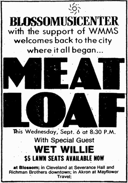 Print ad for Meat Loaf concert